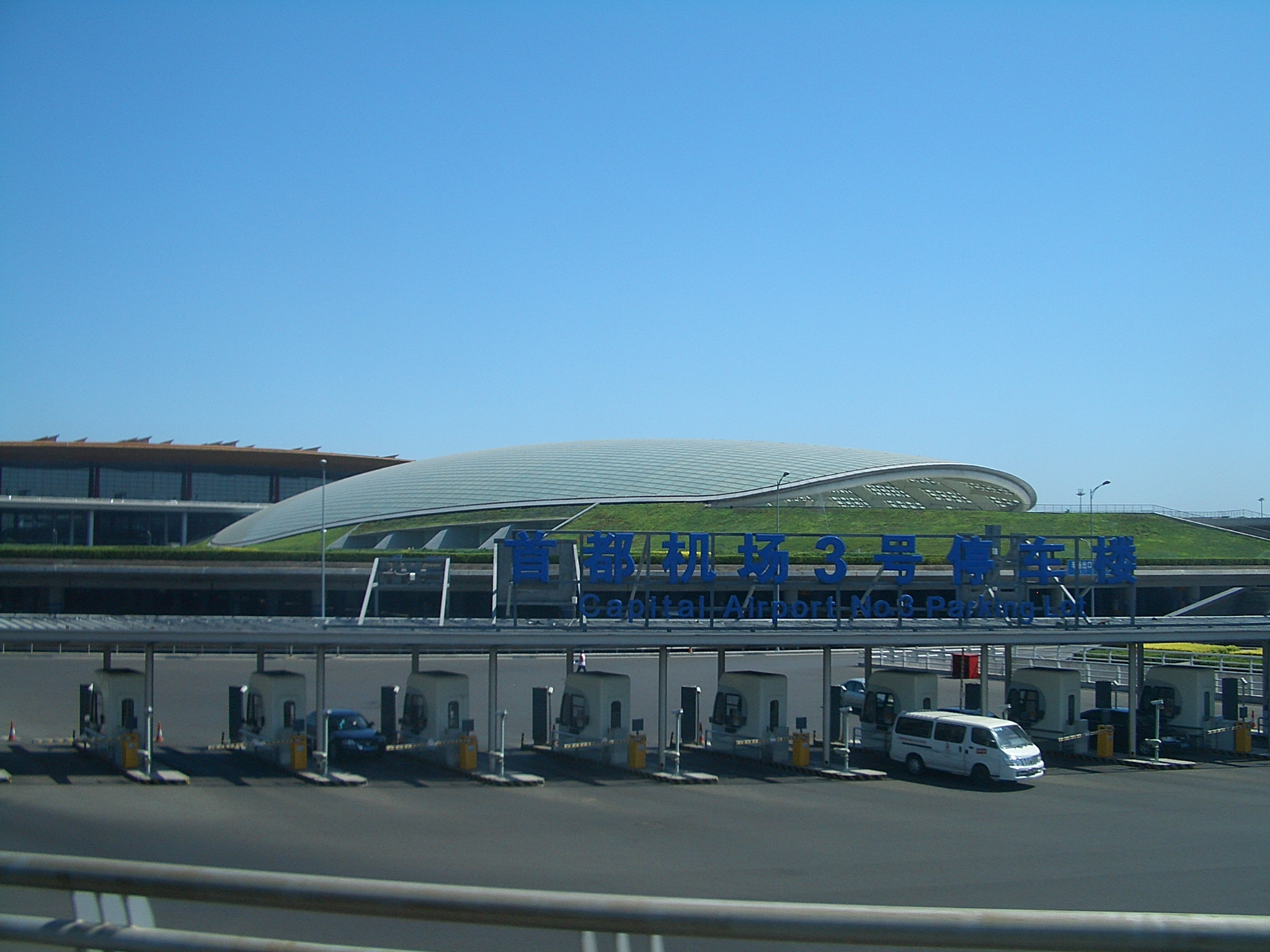 The express train station for Terminal 3, Beijing Capital International Airport